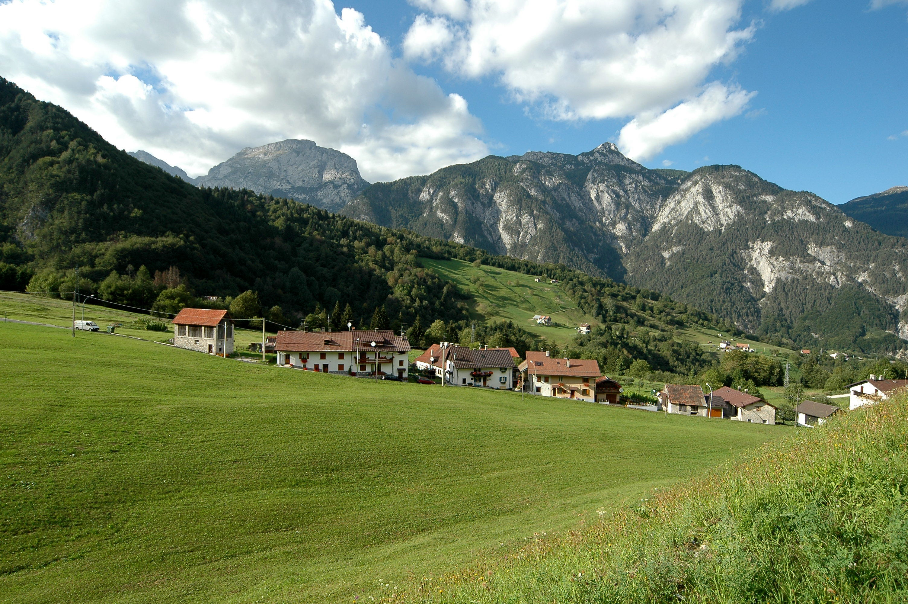 Village of Studena Alta, Pontebba, situated at the road through Aupa Valley to Moggio Udinese Friuli-Venezia Giulia / Italy / EU.